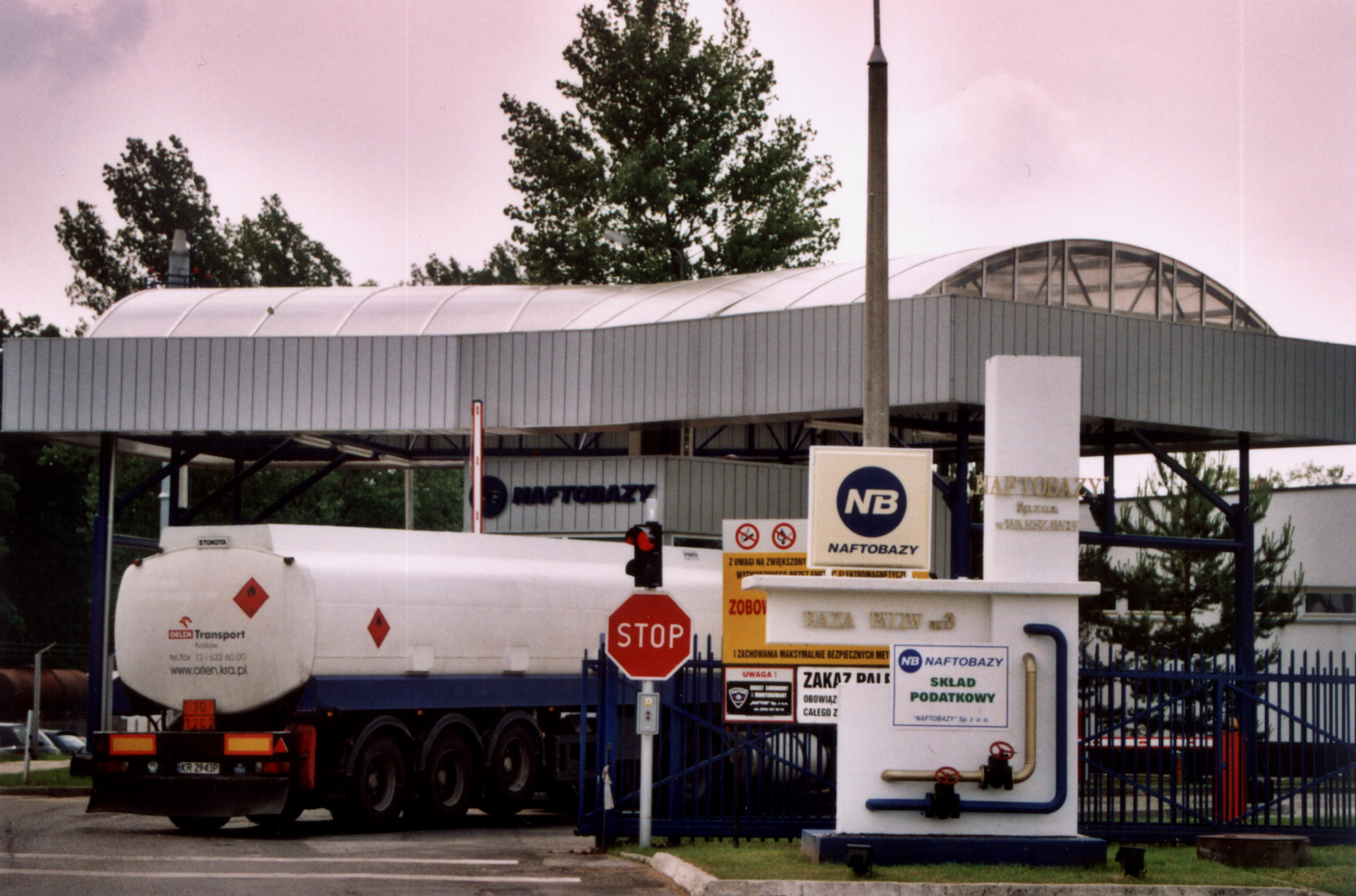 Terminal "Naftobazy" in Boronów I've gotten agreement to photograph that object Author: Przykuta